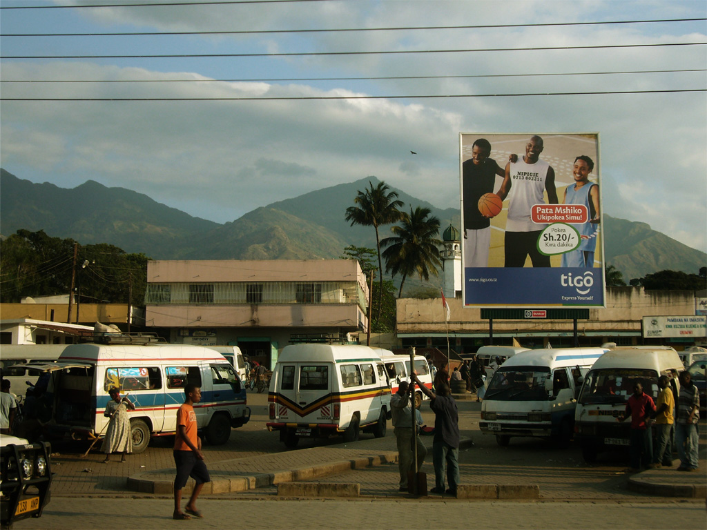 Bus station at the center of Morogoro, Tanzania